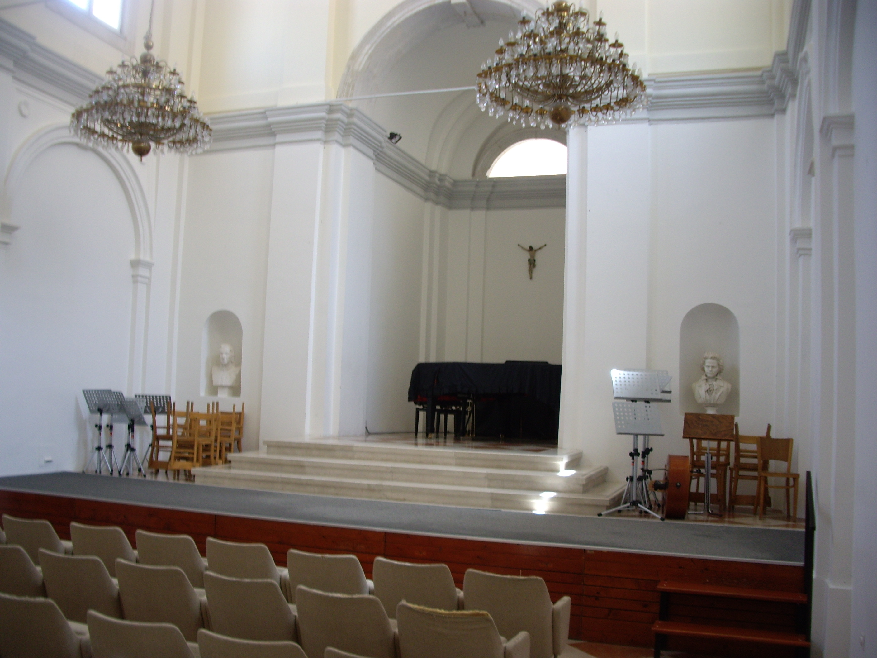 Concert hall in School of Arts "Luka Sorkočević" in Dubrovnik, Croatia